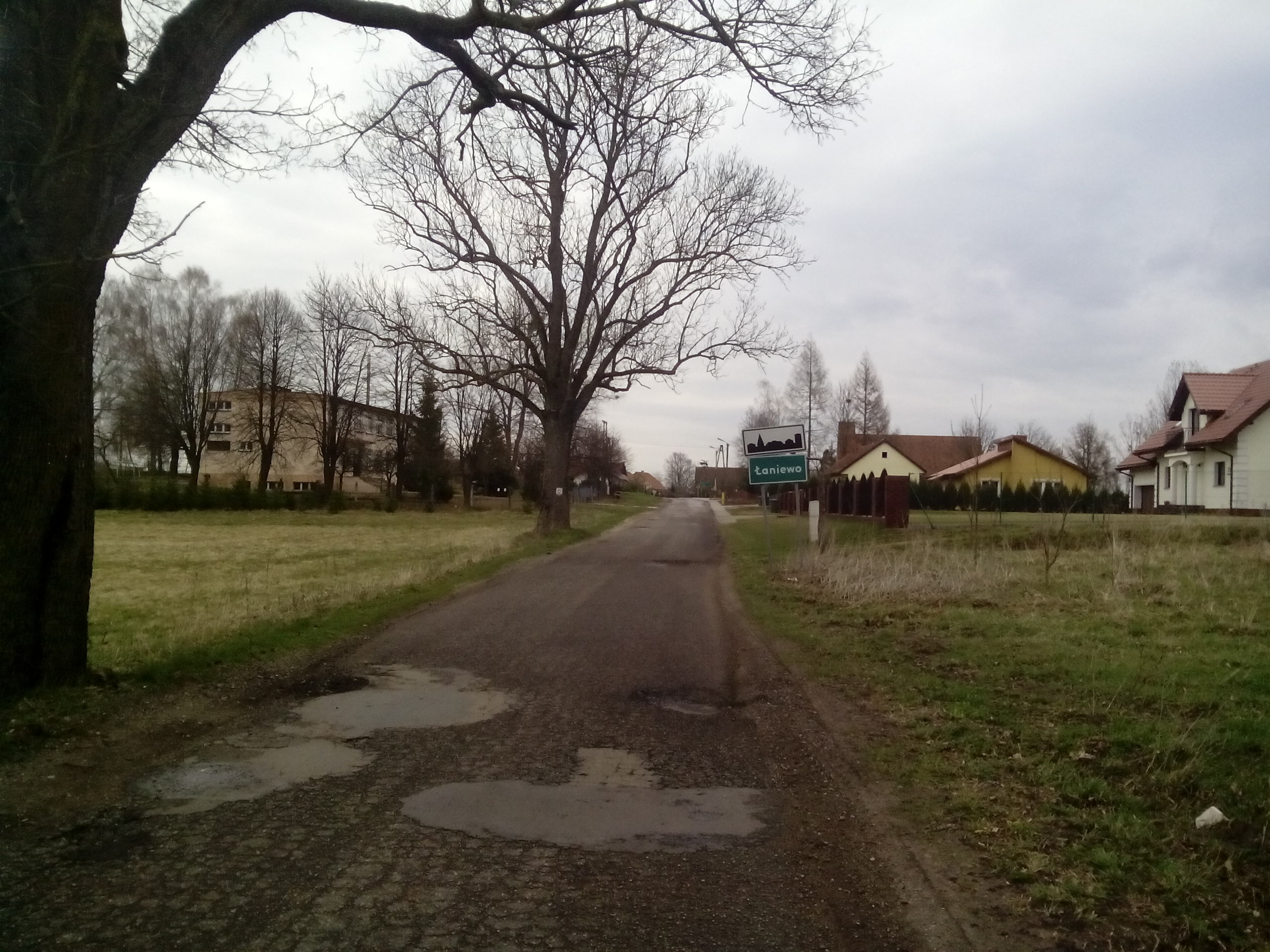 Łaniewo in 2014 (before 1945 Launau)